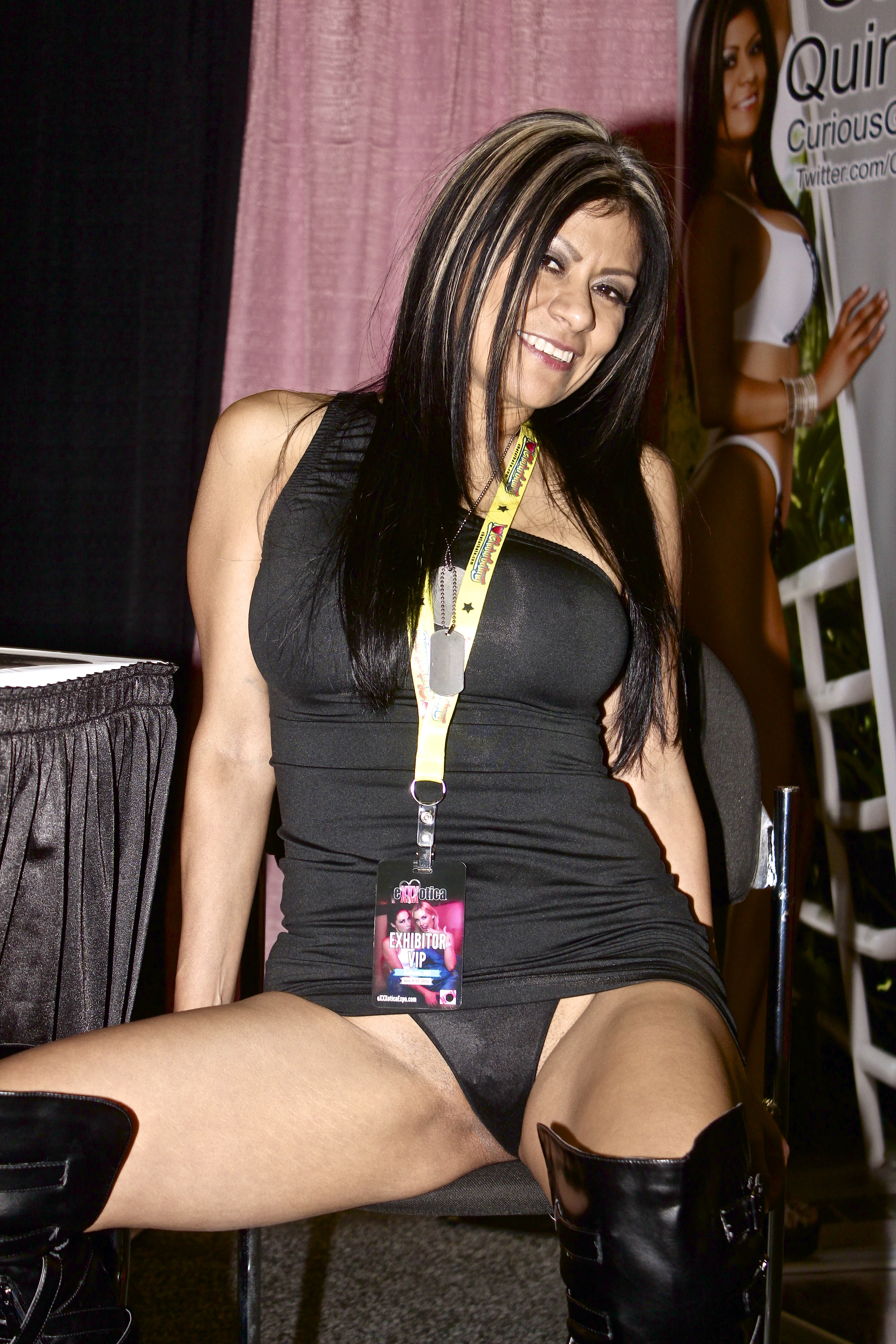 Gabby Quinteros at Exxxotica New Jersey on November 9, 2012